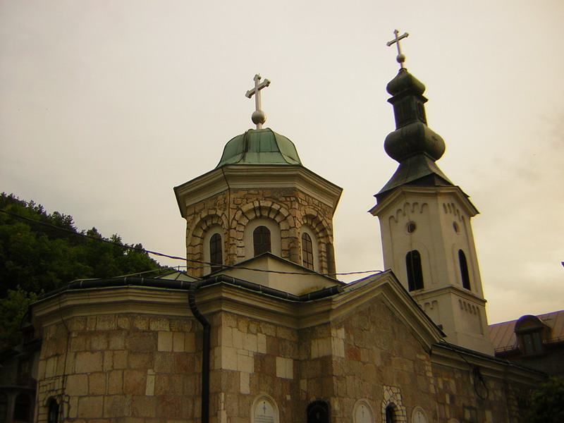 Monastery Tavna